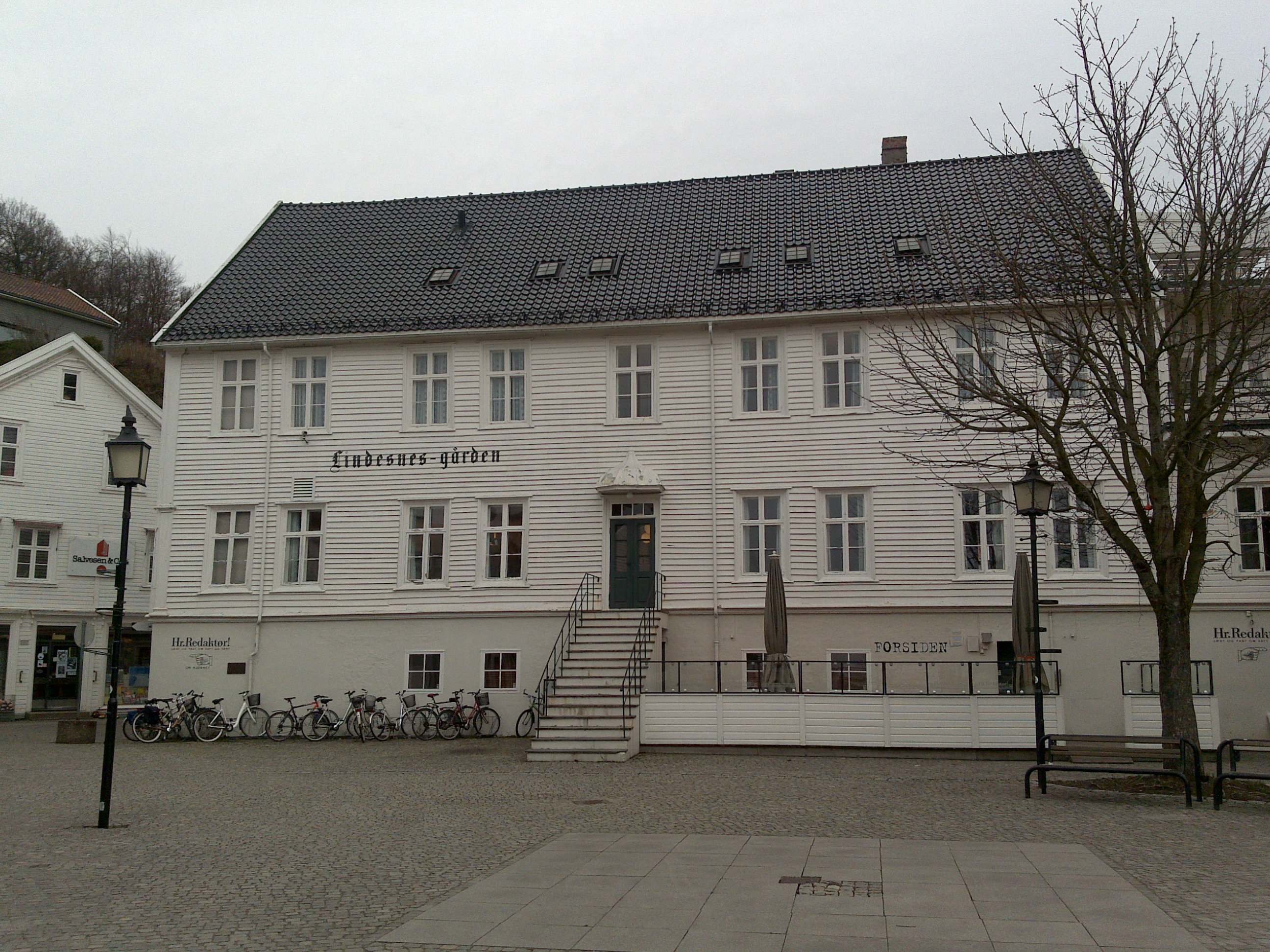 Lindesnes-gaarden, the long established headquarters of the "Lindesnes" newspaper, Mandal (Norway)